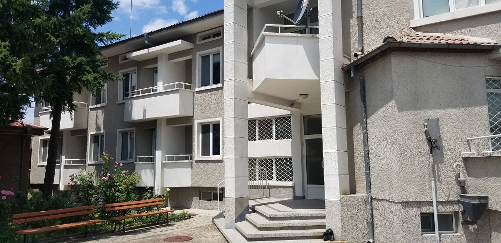 St. Roch Church, Plovdiv - monastery of the Daughters of Charity of Saint Vincent de Paul